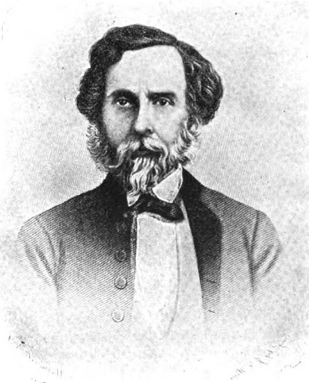 Jose Trinidad Cabanas, Taken from Geografia de la America Central by Dario Gonzalez 1896